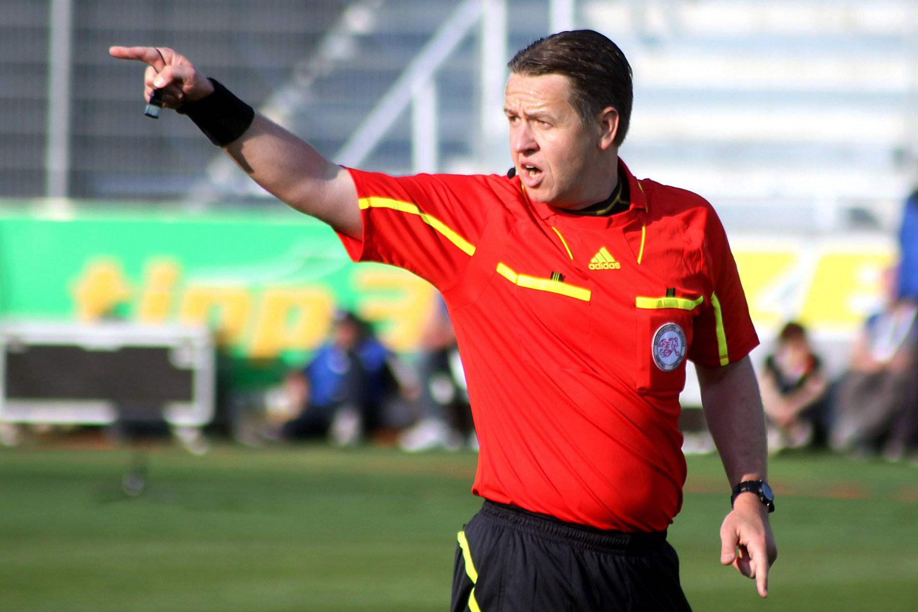 Daniel Wermelinger, Referee of Switzerland